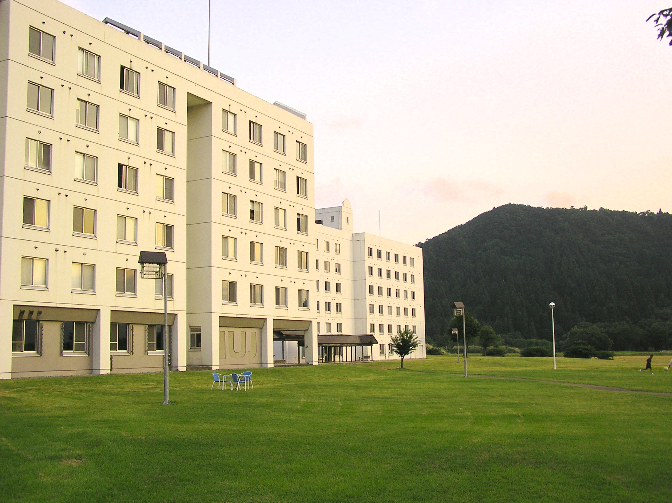 Student Dormitories at the International University of Japan. Photo by: S. J. Wong